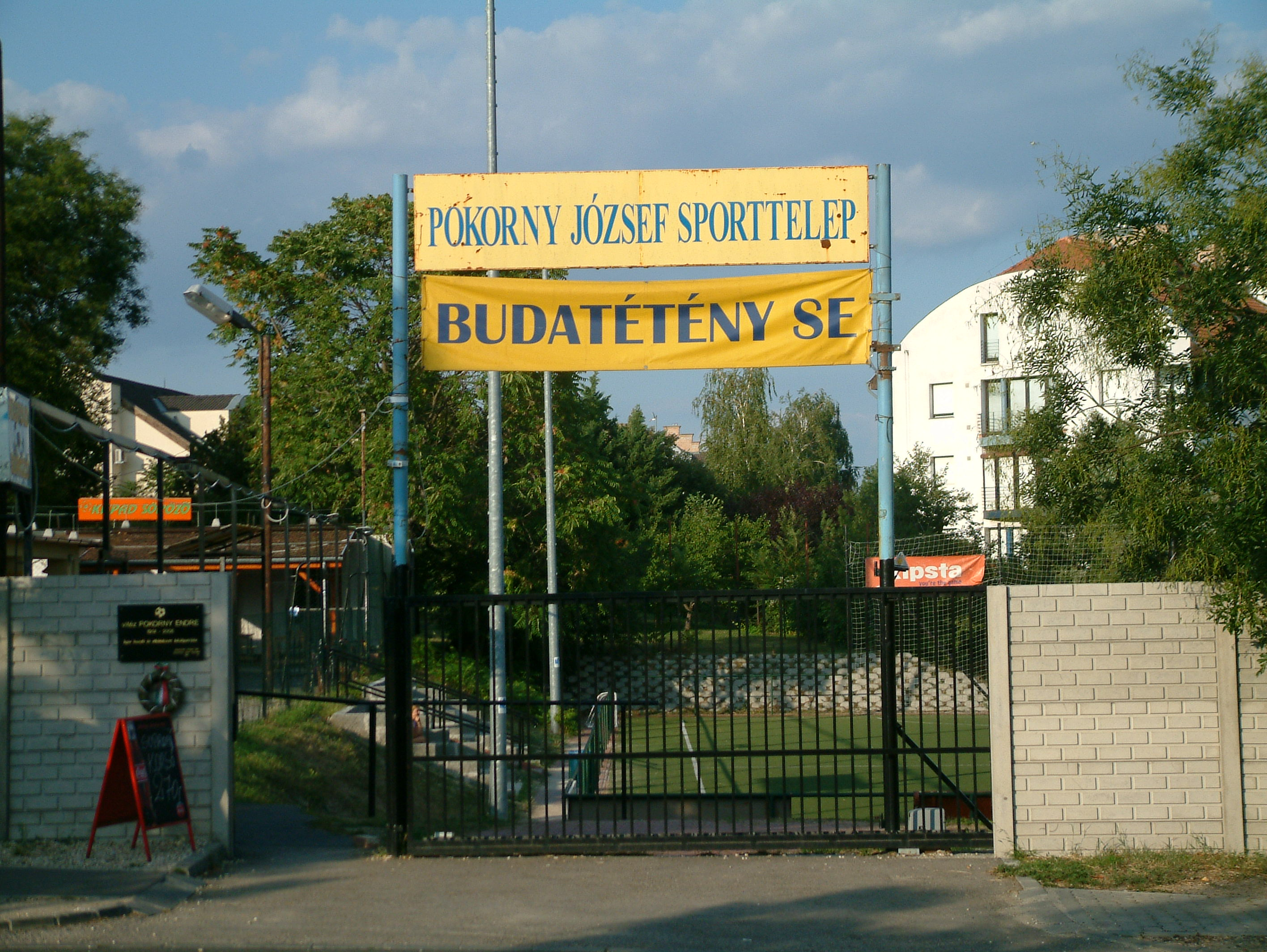 Entrance of József Pokorny Sports Site, Budatétény, Budapest